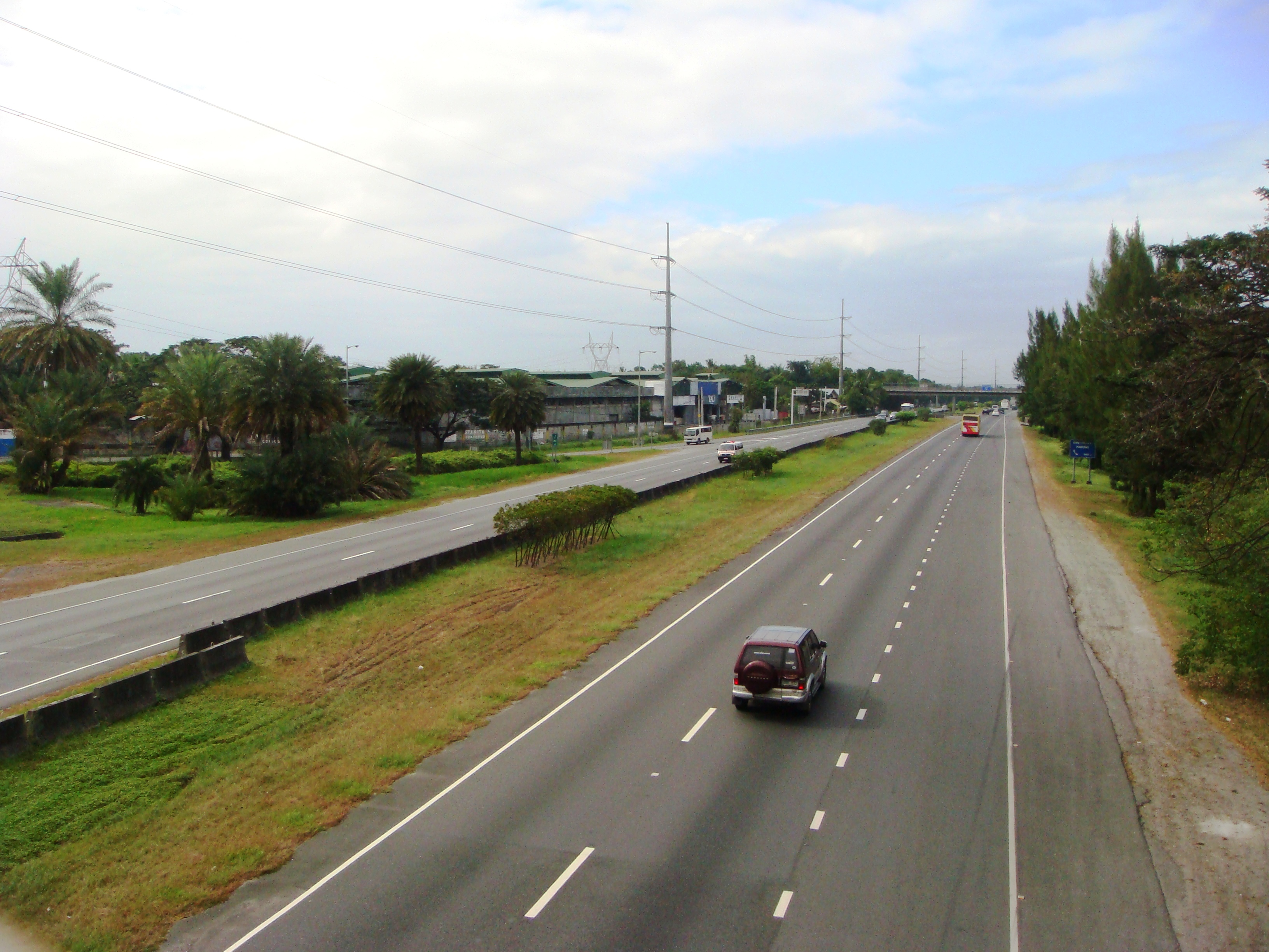 Overview from Bridge (NLEX, Sta. Rita)